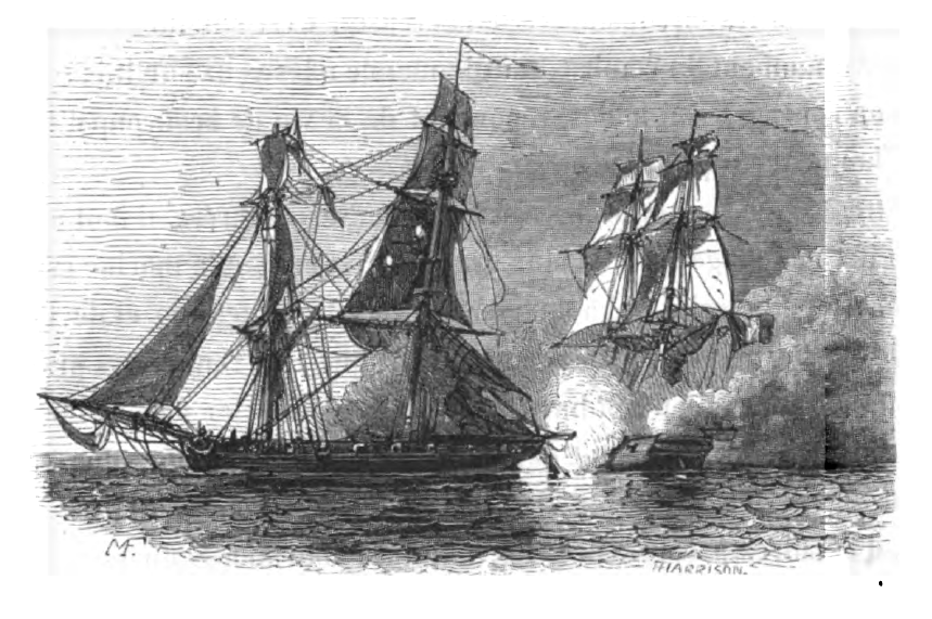 Capture of HMS Alacrity by Abeille. Illustration from La Marine, by Pacini.